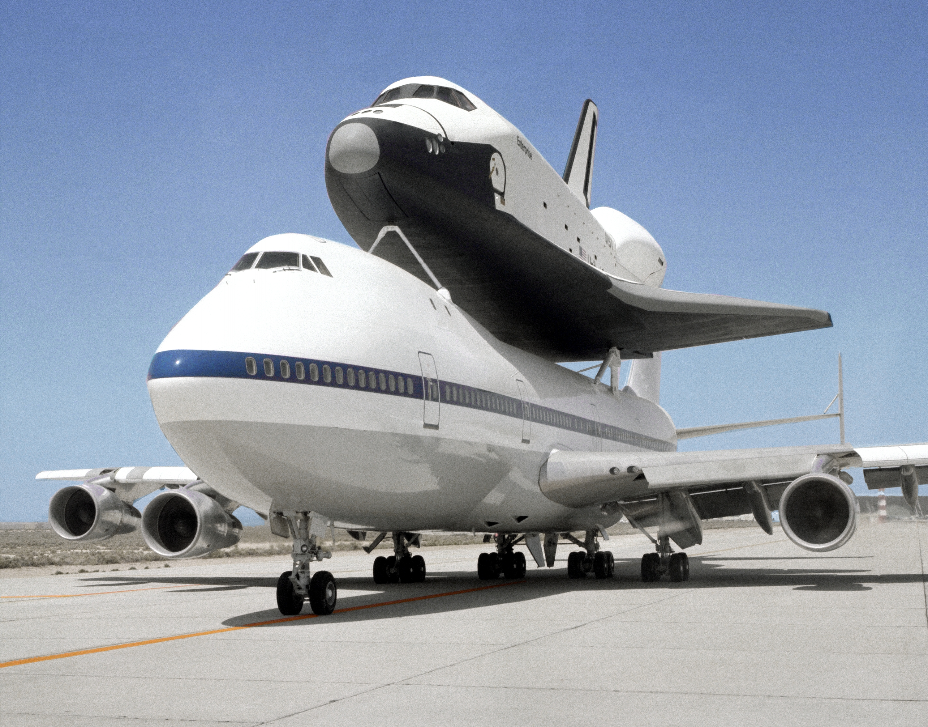 The Space Shuttle Enterprise, the nation's prototype space shuttle orbiter, before departing NASA's Dryden Flight Research Center, Edwards, California, at 11:00 a.m., 16 May 1983, on the first leg of its trek to the Paris Air Show at Le Bourget Airport, Paris, France. Seen here atop the huge 747 Shuttle Carrier Aircraft (SCA), the first stop for the Enterprise was Peterson AFB, Colorado Springs, Colorado. Piloting the 747 on the Europe trip were Joe Algranti, Johnson Space Center Chief Pilot, Astronaut Dick Scobee, and NASA Dryden Chief Pilot Tom McMurtry. Flight engineers for that portion of the flight were Dryden's Ray Young and Johnson Space Center's Skip Guidry.